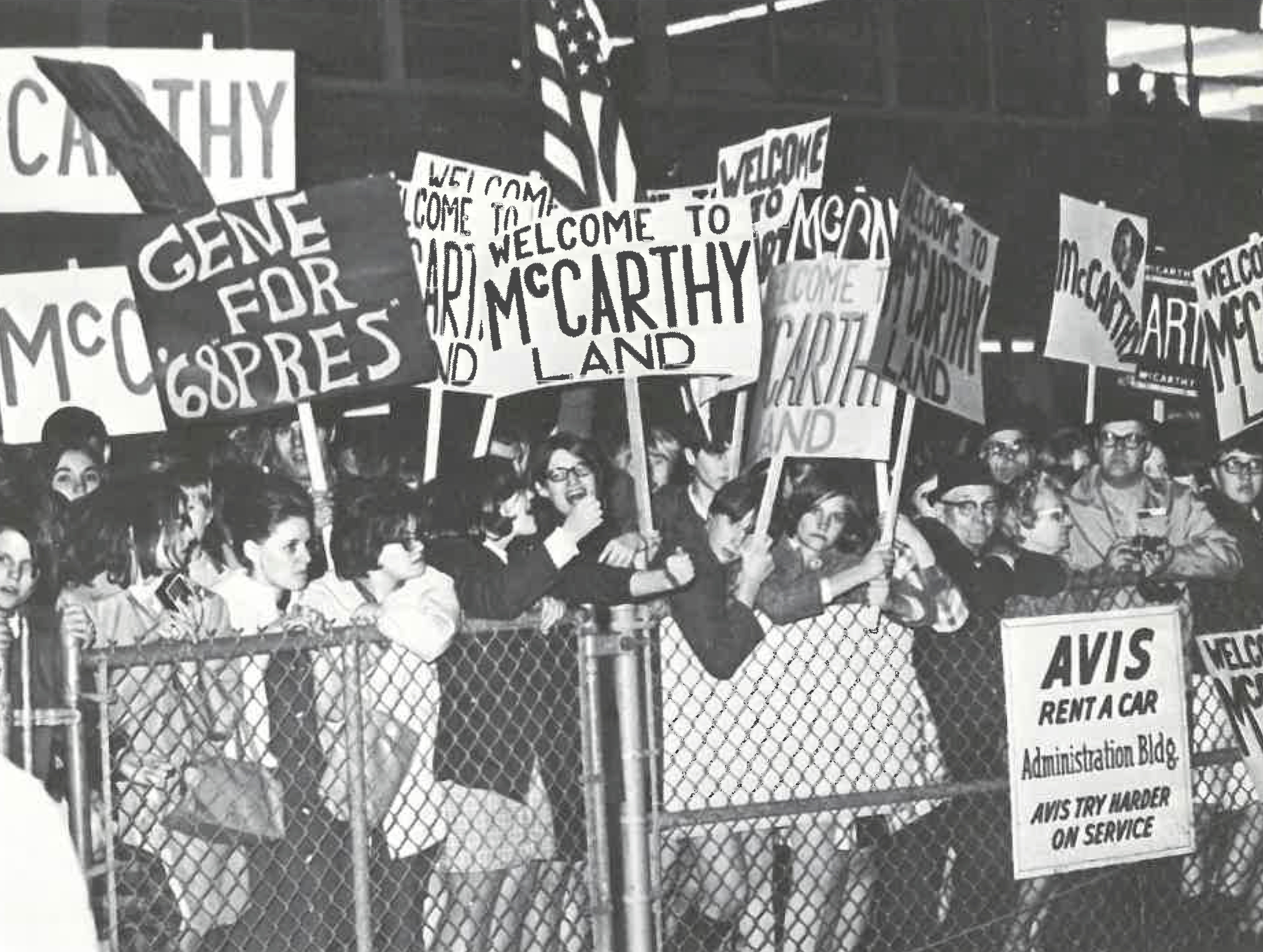 Eugene McCarthy supporters MSU-Moorhead